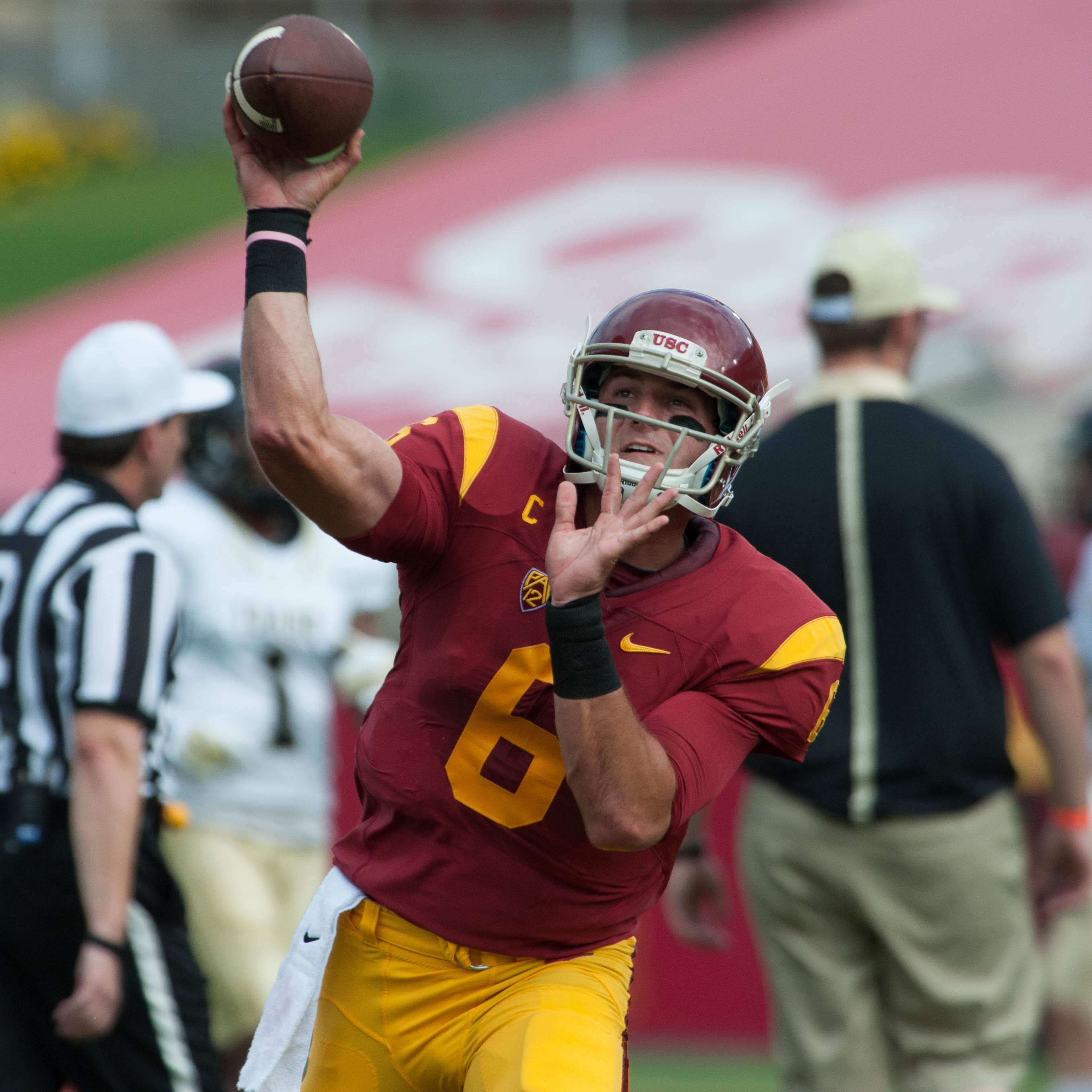 Charlie Magovern/Neon Tommy